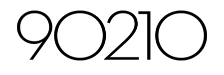 Logo from the The CW television program 90210